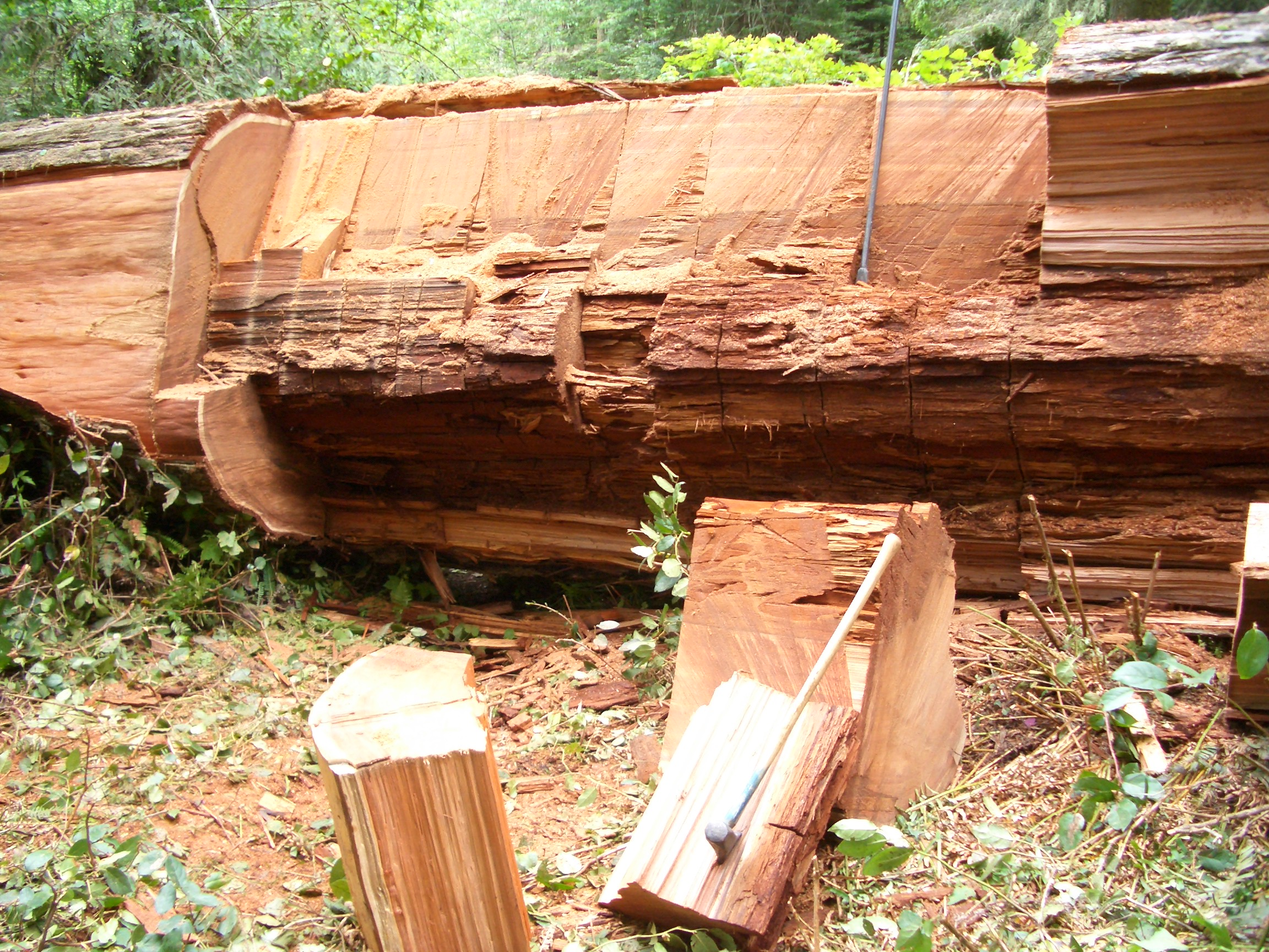 Redwood Tree (Sequoia sempervirens) fallen over "Orick Horse Trail"